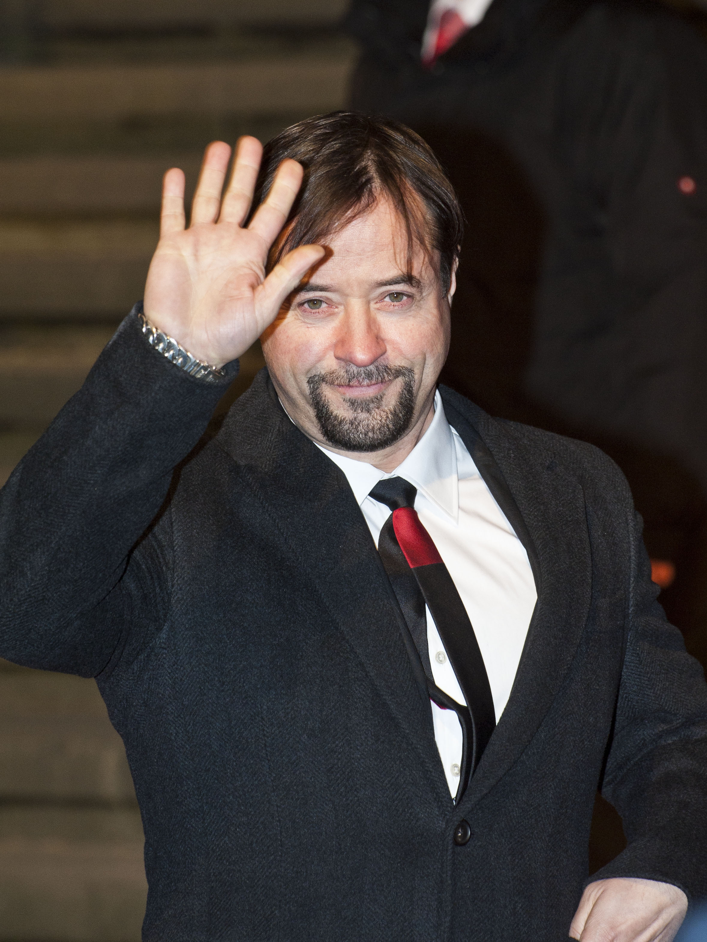 German actor Jan Josef Liefers at the Cinema for Peace gala.